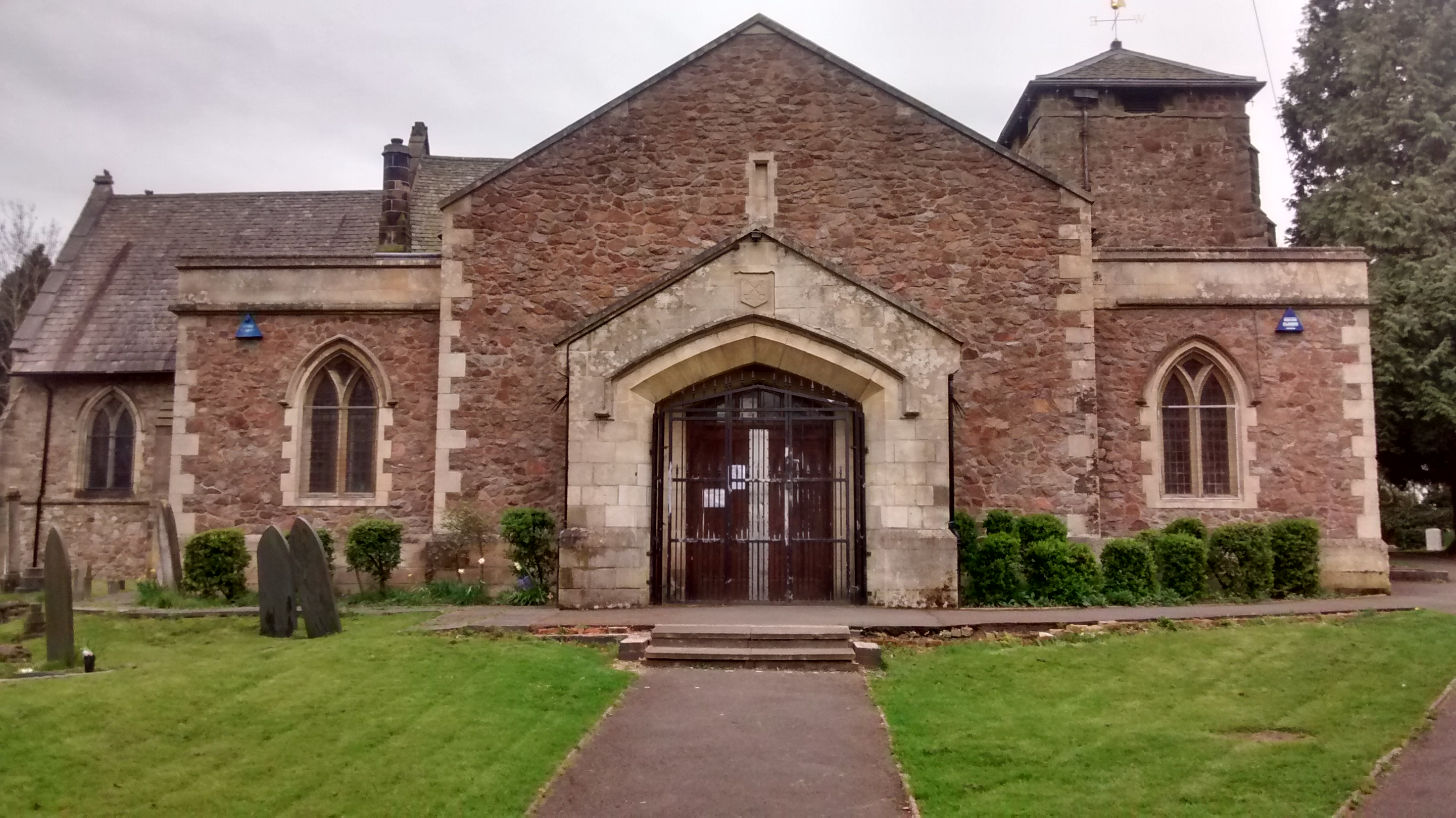 St Peter's parish church, Braunstone, Leicester, seen from the north